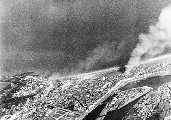 IWM caption : THE DIEPPE RAID, 19 AUGUST 1942 An aerial photograph of Dieppe during the landings showing a substantial fire burning on the front.